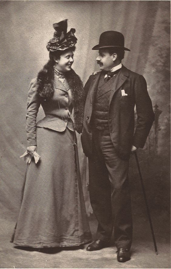 Ignacio Zuloaga and his wife Valentine Dethomas (c.1900). The couple married May 18, 1899, with Eugène Carrière and Isaac Albéniz as witnesses. Valentine was Maxime Dethomas' half-sister; Zuloaga was Maxime's close friend.